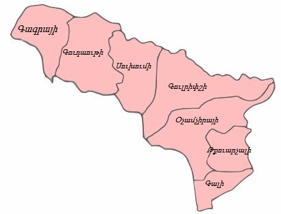 The regions of Abkhazia